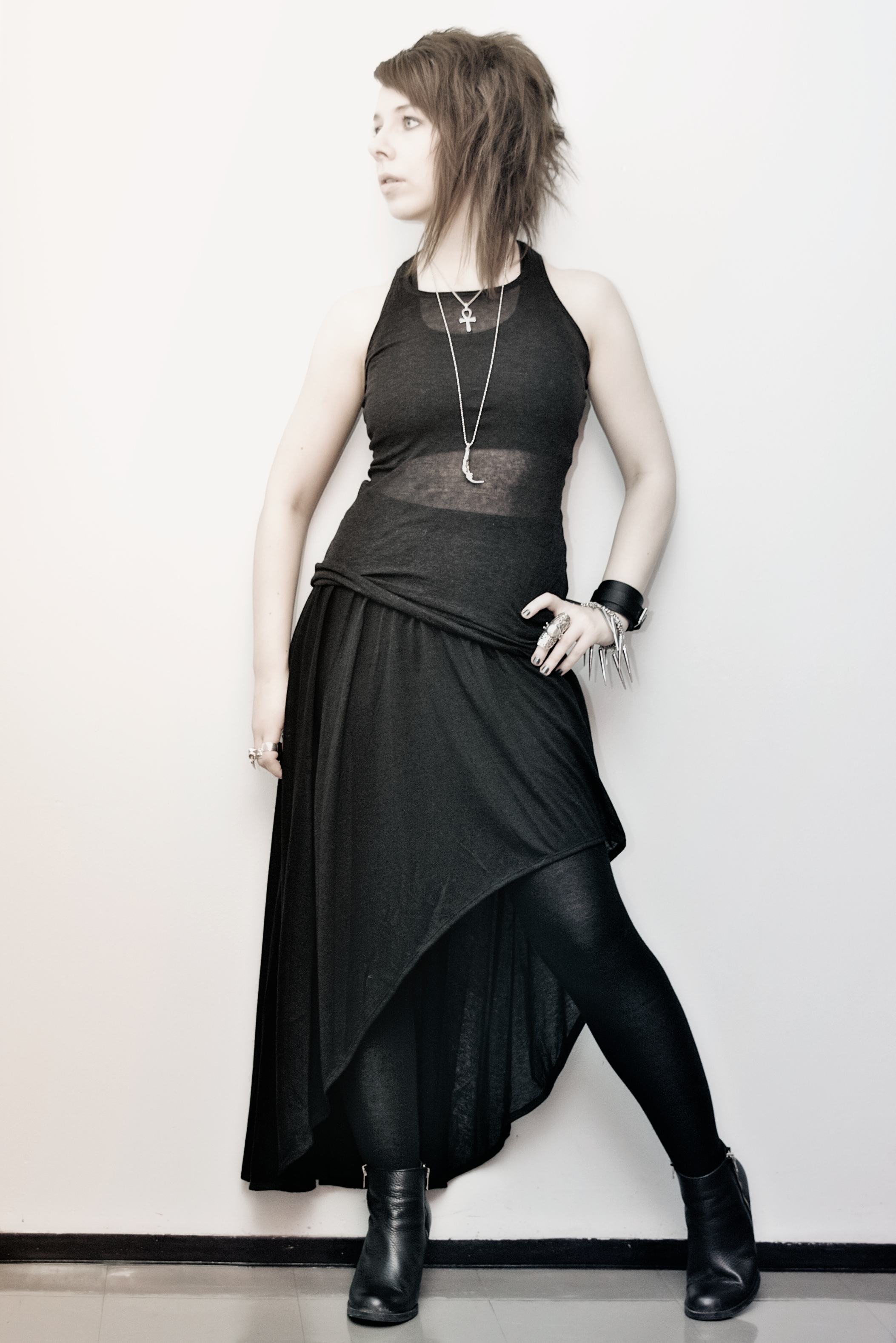 Example of a high-low skirt, also known as asymmetrical, waterfall, or mullet skirt hem, which is higher on the side or front than the back, a popular trend for Spring and Summer 2012